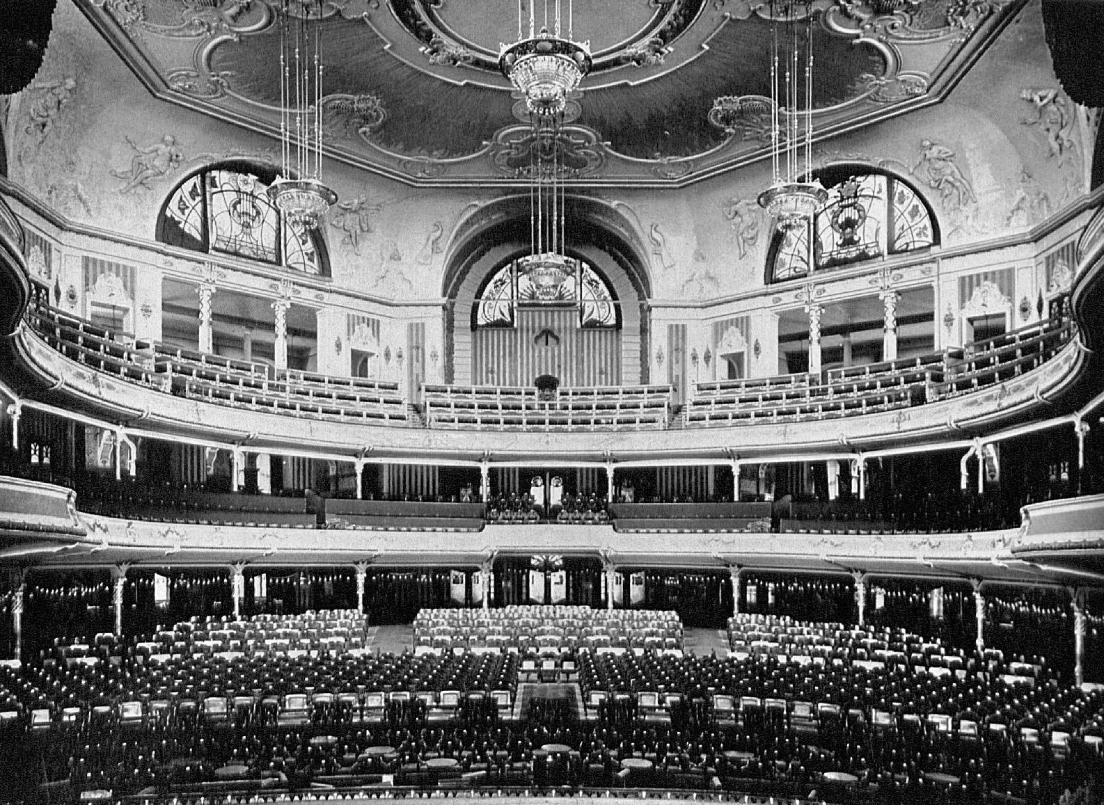 i